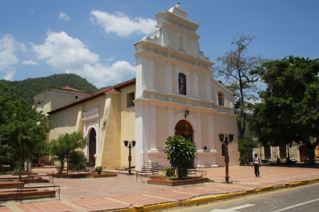 San Sebastian Church, Ocumare de La Costa, Venezuela.